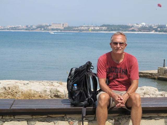 Rüdiger Glaser